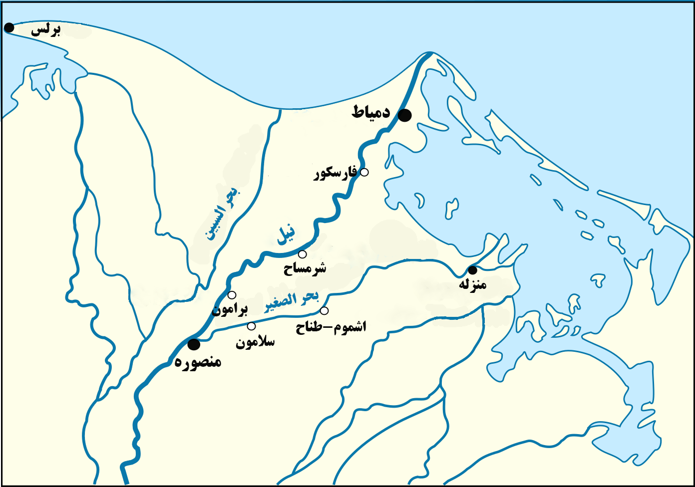 Carte du delta oriental du Nil à l'époque des croisades. A partir de la carte de René Grousset Histoire des Croisades - III l'Anarchie Franque, 1936 (réed. 2006), éditeur Perrin, collection Tempus, ISBN 2-262-02569-X, page 448